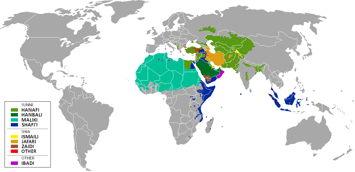 The distribution of the predominant Islamic madhhab (school of law) followed in majority-Muslim countries and regions (English)